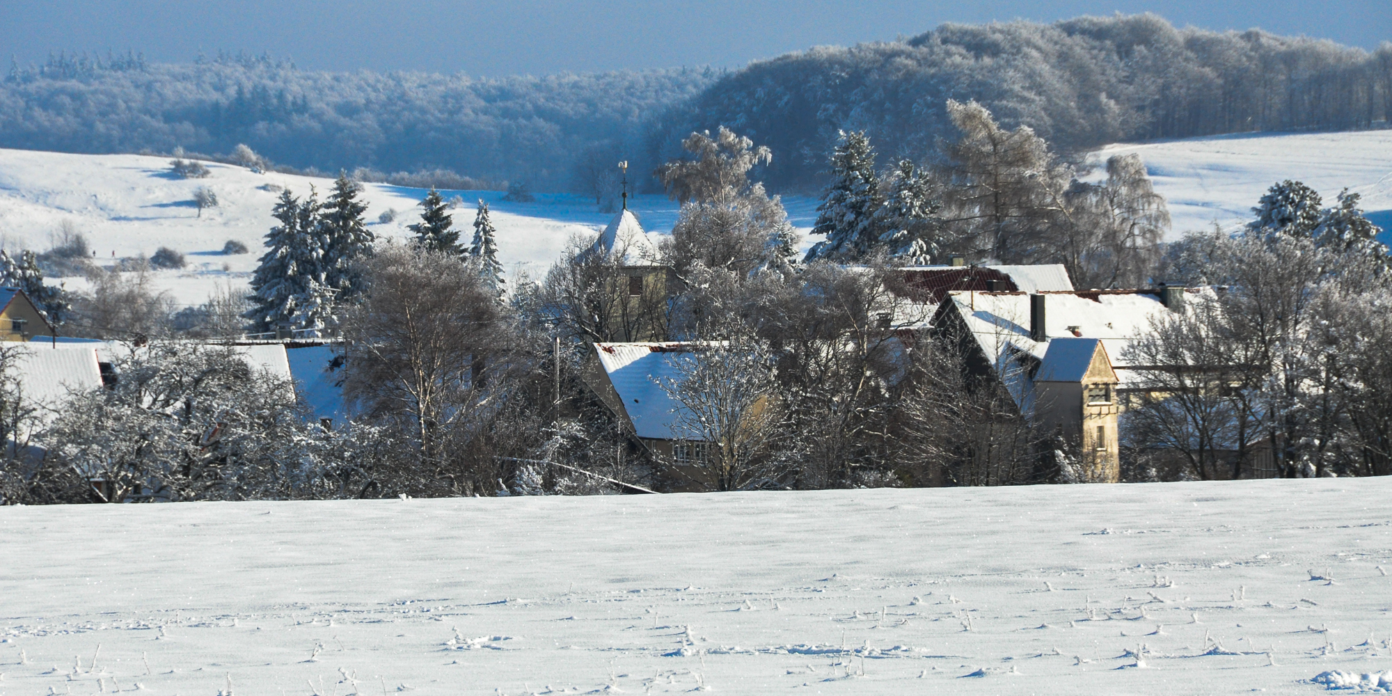 Embedded in a snowy landscape the village of Ochsenwang; Baden-Württemberg, Germany.